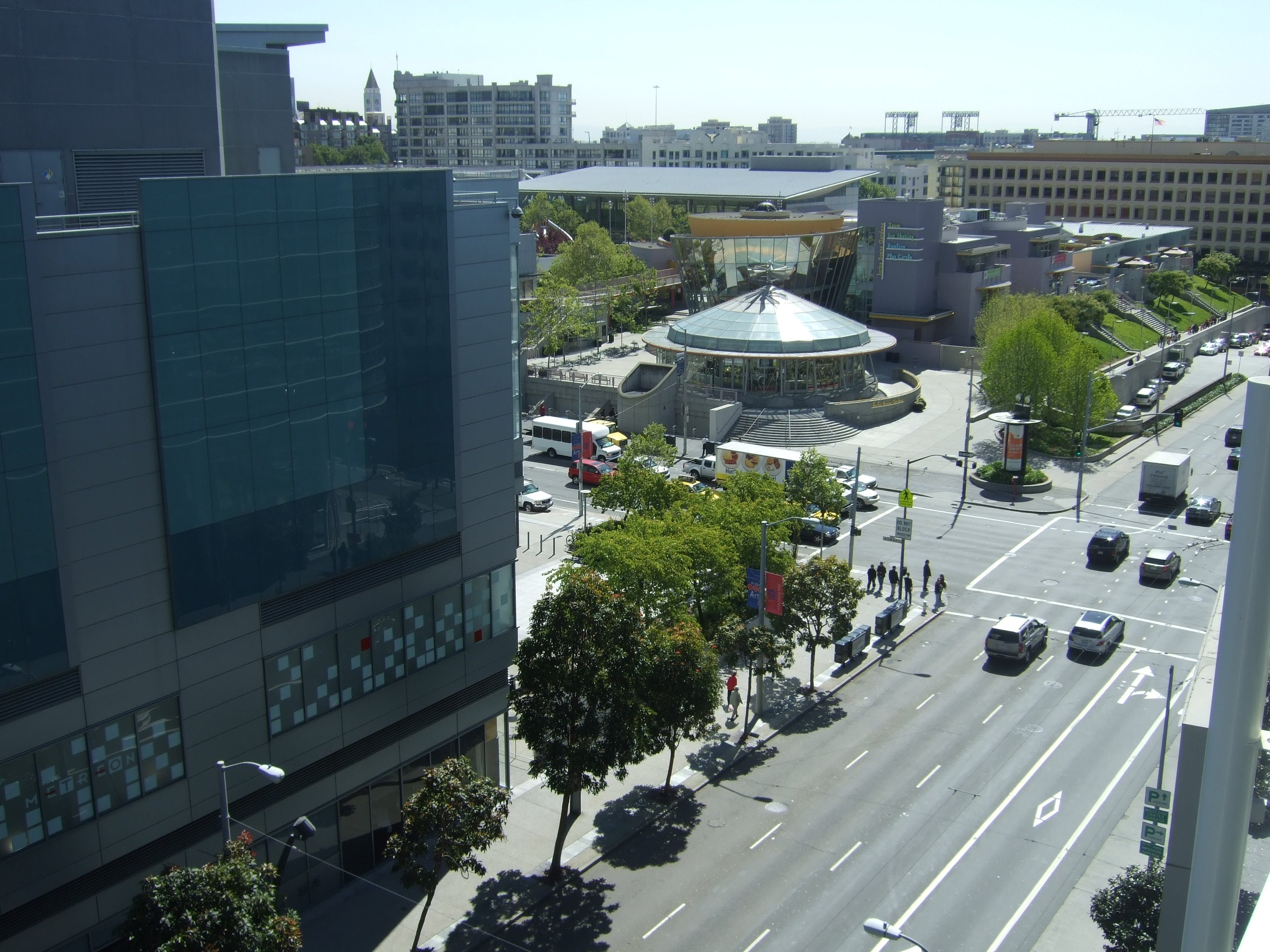 Yerba Buena Gardens seen from terrace of Moscone West Convention Center in San Francisco, California, USA